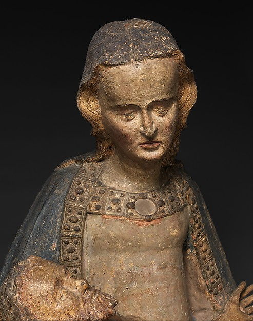 Pietà (Vesperbild) (detail), Sculpture-Wood